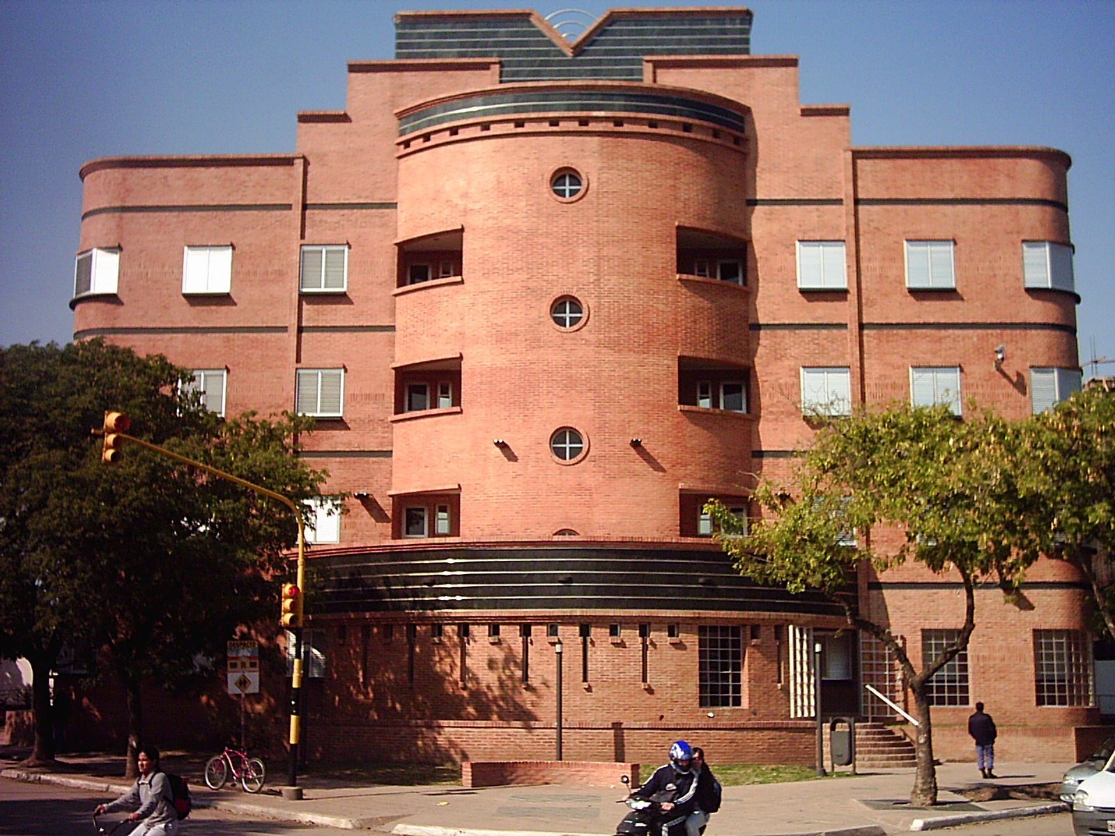 Justice Palace Building in Resistencia, Chaco, Argentina. It was inaugurated on 2007 and in the near future will host all provincial Justice buildings in Resistencia.